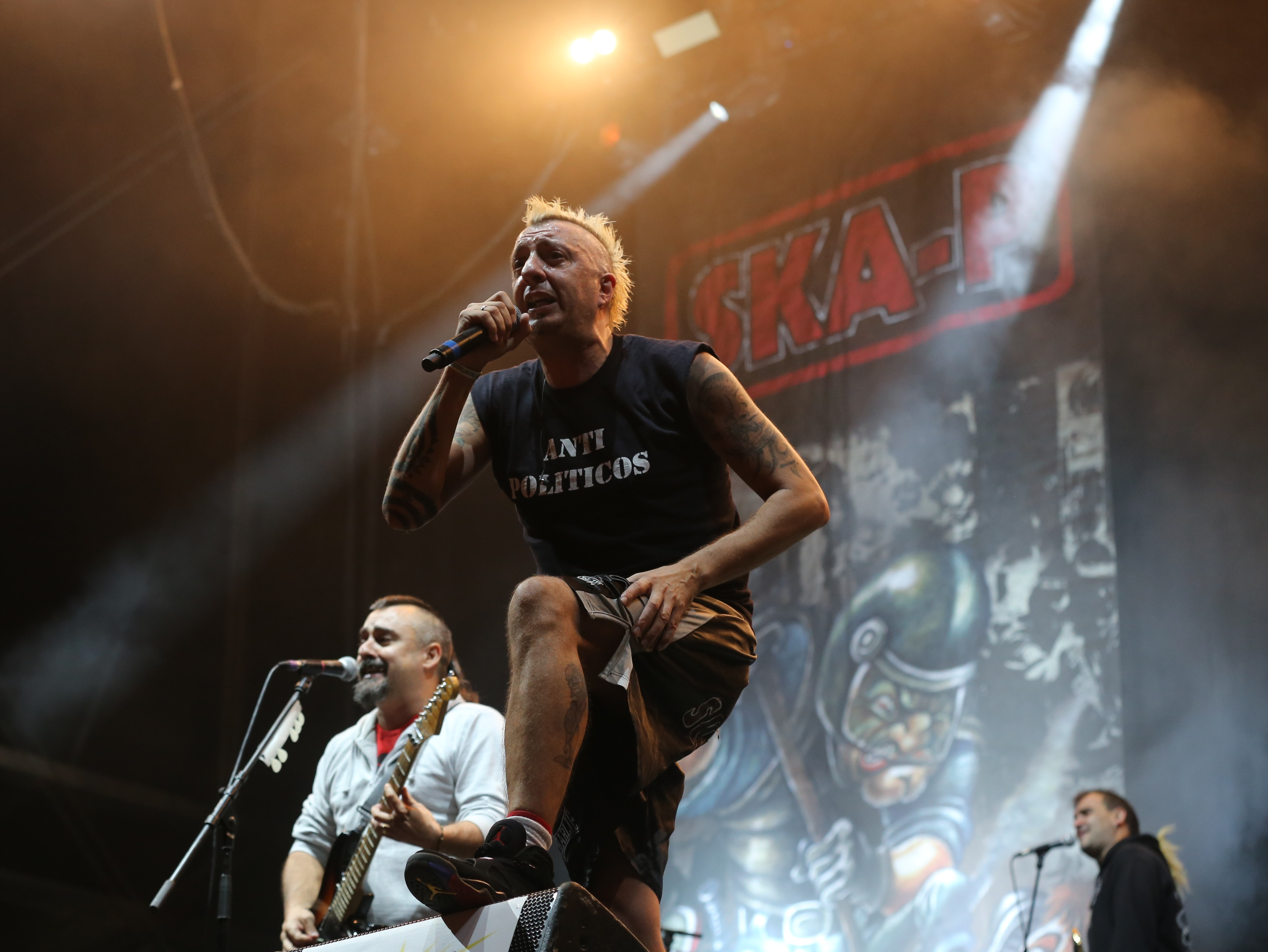 Ska-P at Chiemsee Reggae Summer Festival 2013